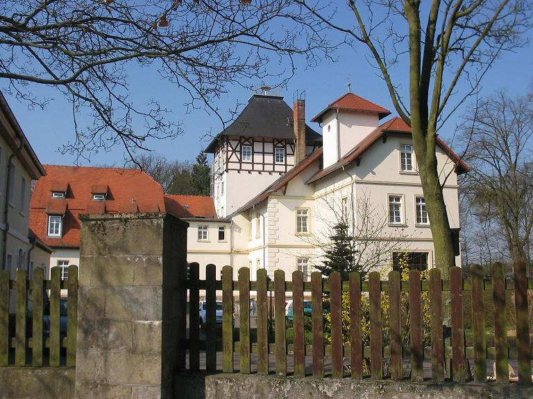 Castle Bärenthoren in Bärenthoren in the nature park Fläming. The village Bärenthoren is part of the municipality Polenzko and belongs to the the district Anhalt-Bitterfeld, state Saxony-Anhalt, Germany. The castle houses today the German Red Cross-carecenter Marie von Kalitsch.